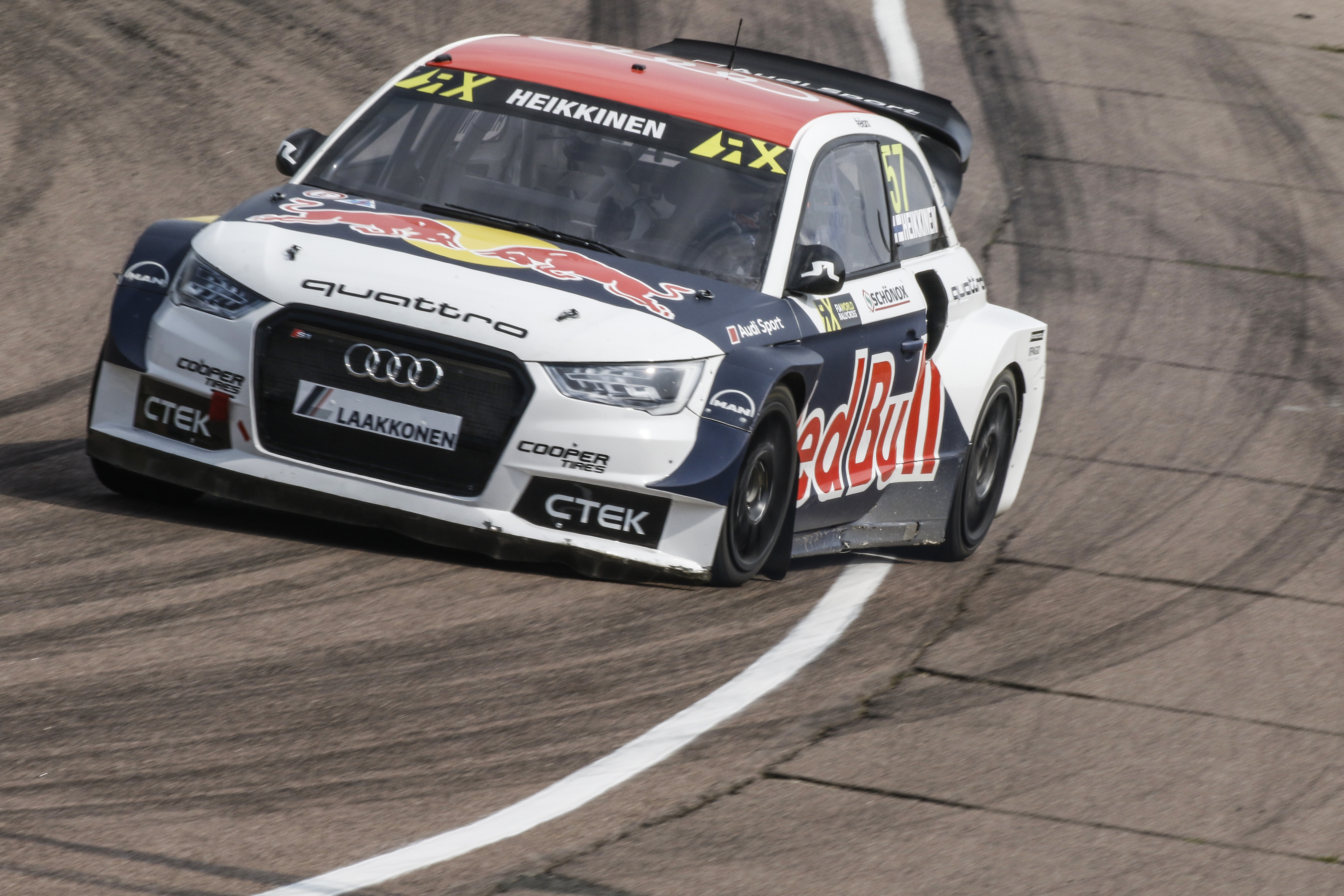 2016 FIA World Rallycross Championship / Round 04, Lydden Hill, GB / May 27 - 29 2016 // Worldwide Copyright: Tony Welam/EKS/McKlein